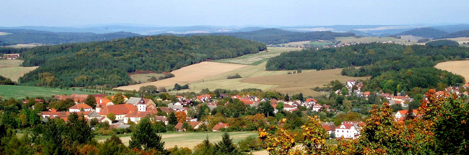 Market town of Chudenice as seen from the Bolfánek lookout tower.